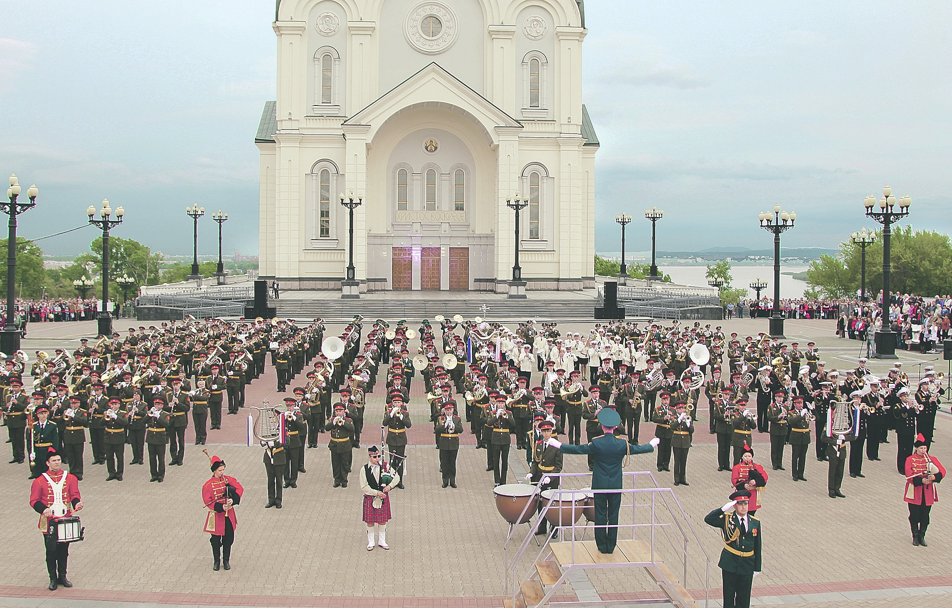 Военные музыканты ВВО начали подготовку к Международному военно-музыкальному фестивалю «Амурские волны»